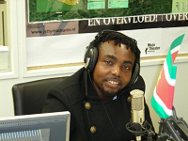 picture of Dareysteel Radio interview in Amsterdam holland